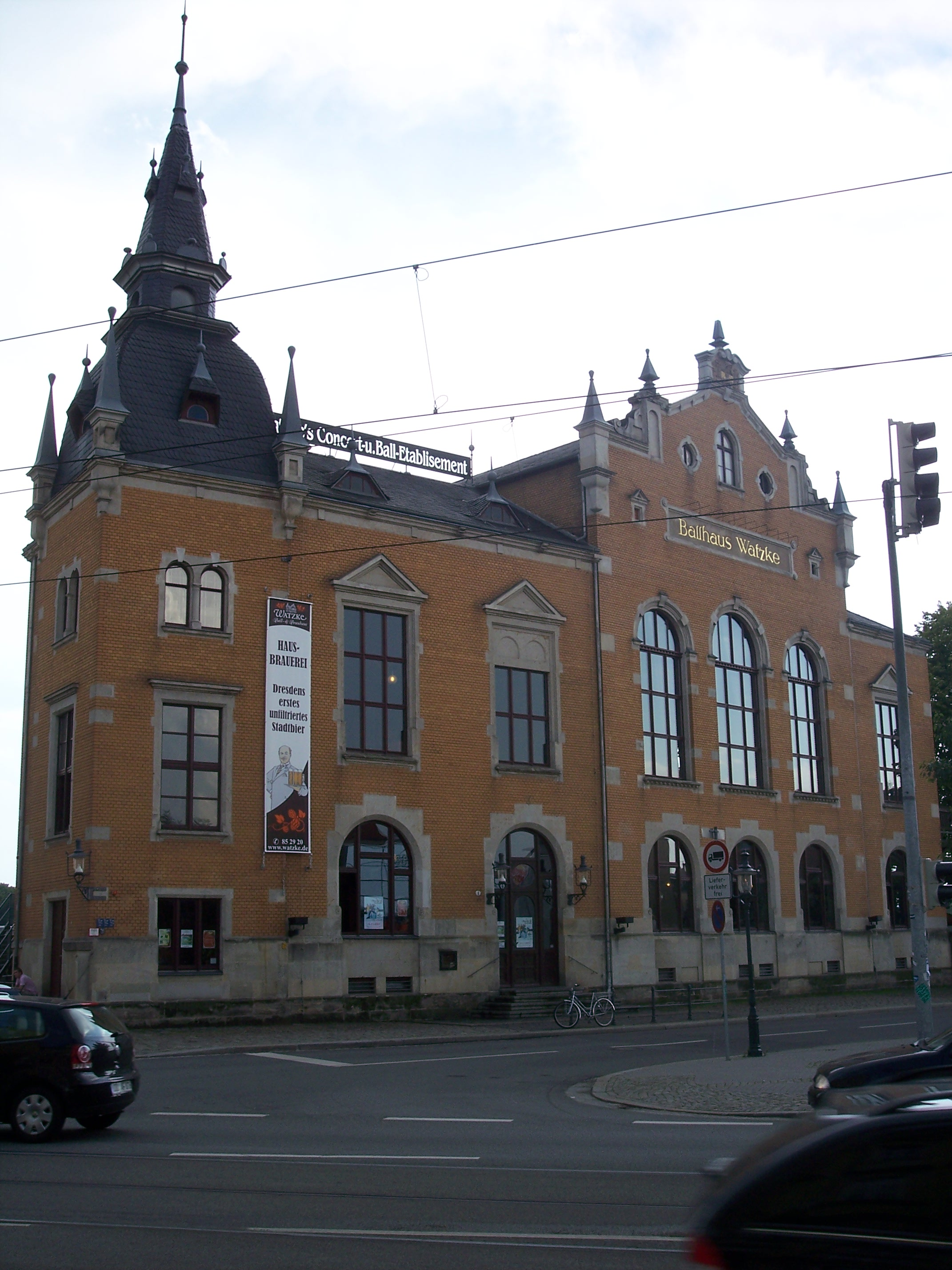 brewery and ballroom dancing facility "Watzke" in Dresden